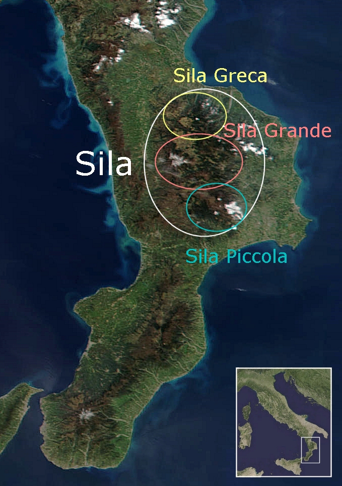 Location of the mountain range of the Sila in Calabria in Italy